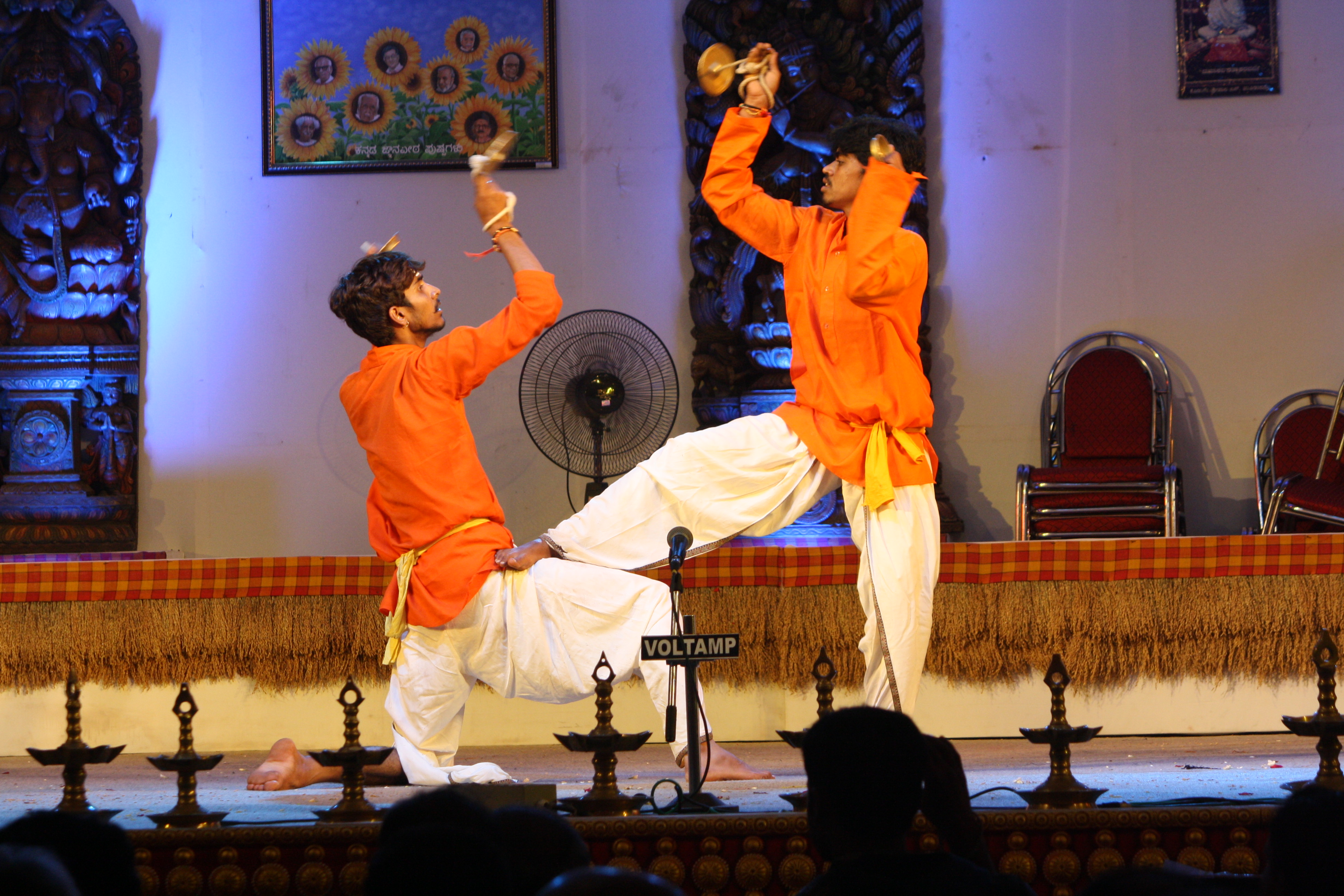 Karnataka's folklore Beesu Kamsale a variety of Kamsaleಕನ್ನಡ: ಕರ್ನಾಟಕ ಜಾನಪದದ ಒಂದು ಪ್ರಕಾರ ಬೀಸು ಕಂಸಾಳೆ. ಇದು ಕಂಸಾಳೆಯ ಒಂದು ಪ್ರಭೇದ